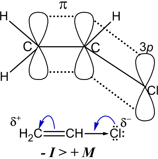 Vinyl chloride molecule